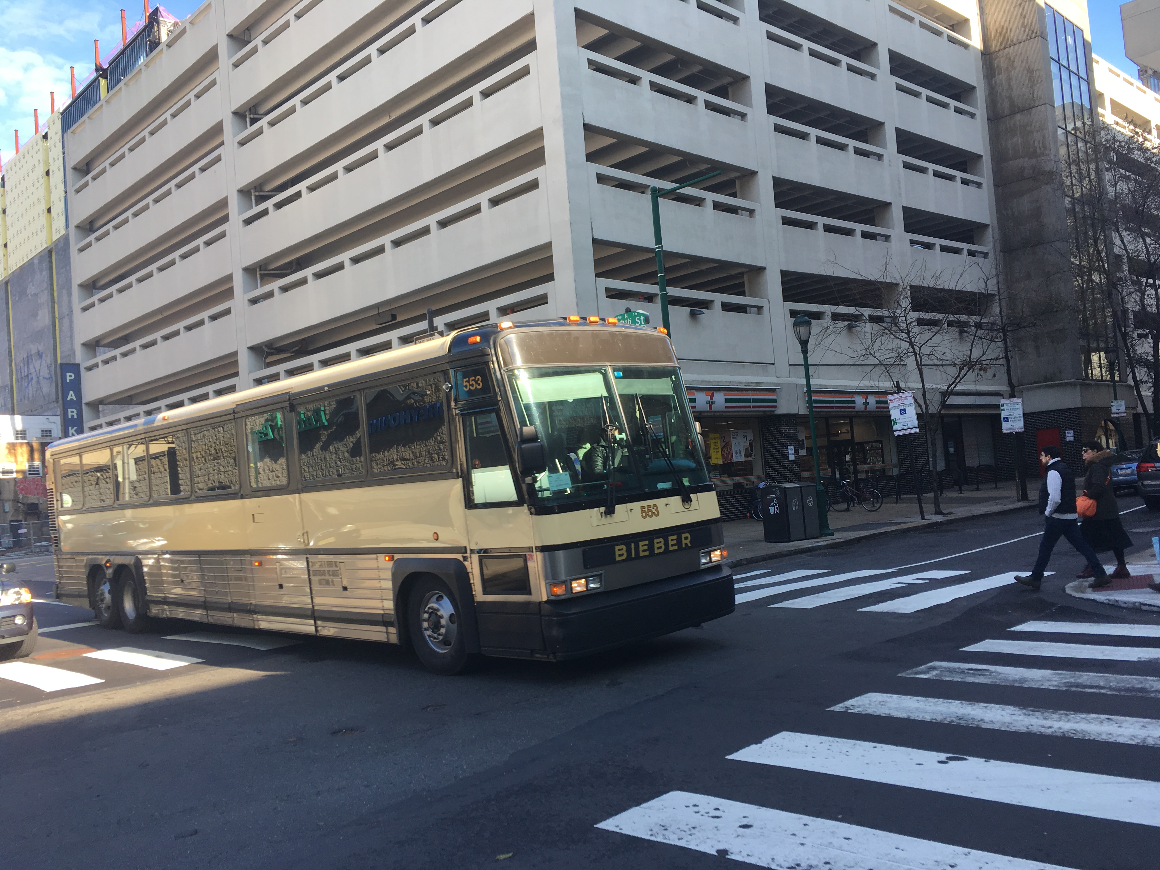 Bieber MCI 102DL3 bus 553 heads south on 10th Street at Filbert Street in Philadelphia, Pennsylvania